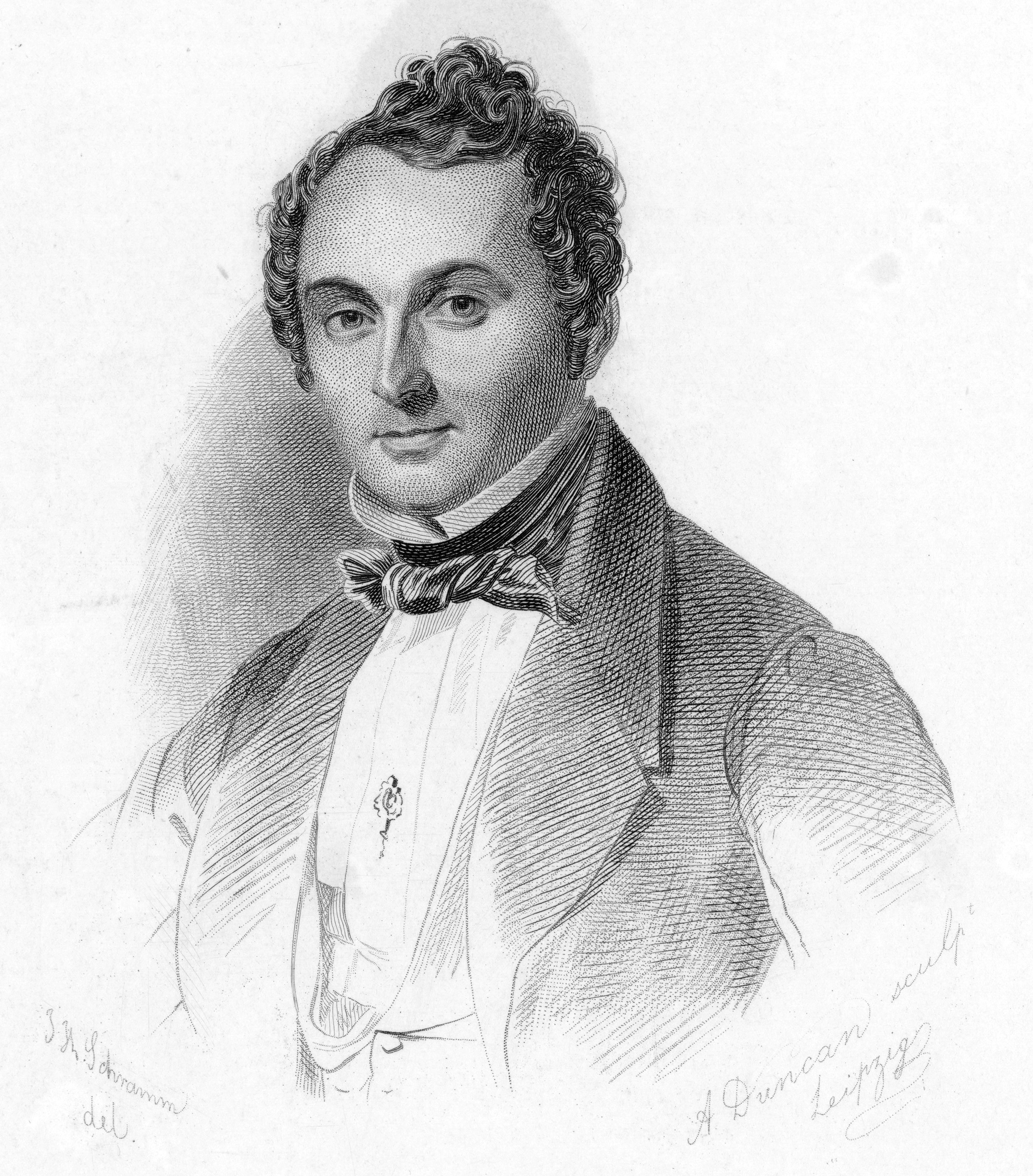 Depicted person: Albert Lortzing